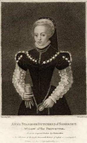 Template:Anne Seymour, Duchess of Somerset (née Stanhope) (c.1510 – 16 April 1587) was the second wife of Edward Seymour, 1st Duke of Somerset, who held the office of Lord Protector during the first part of the reign of his nephew King Edward VI, through whom Anne was briefly the most powerful woman in England.